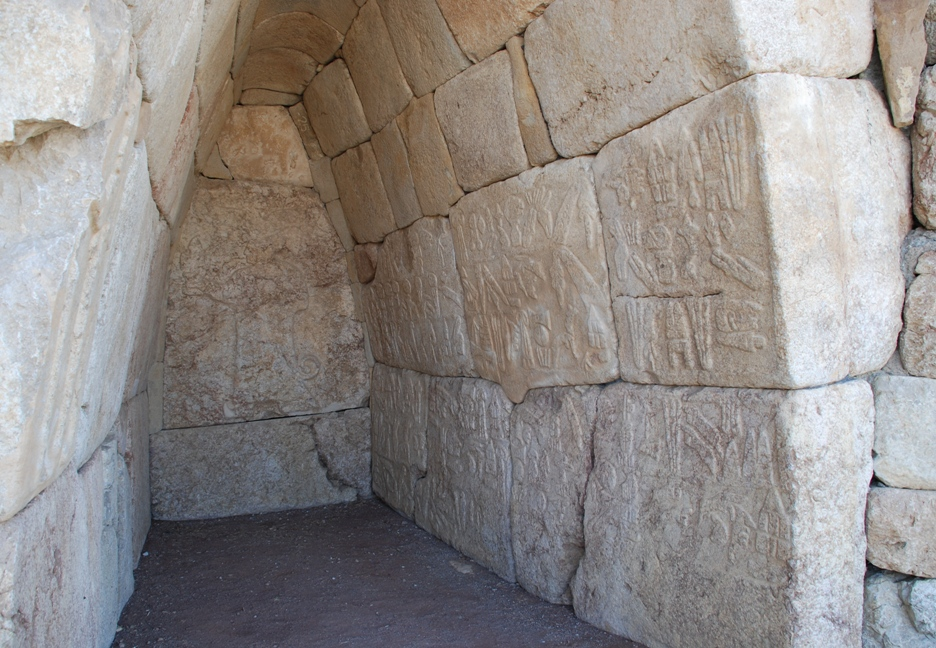 Hyroglyphs in Hattusa